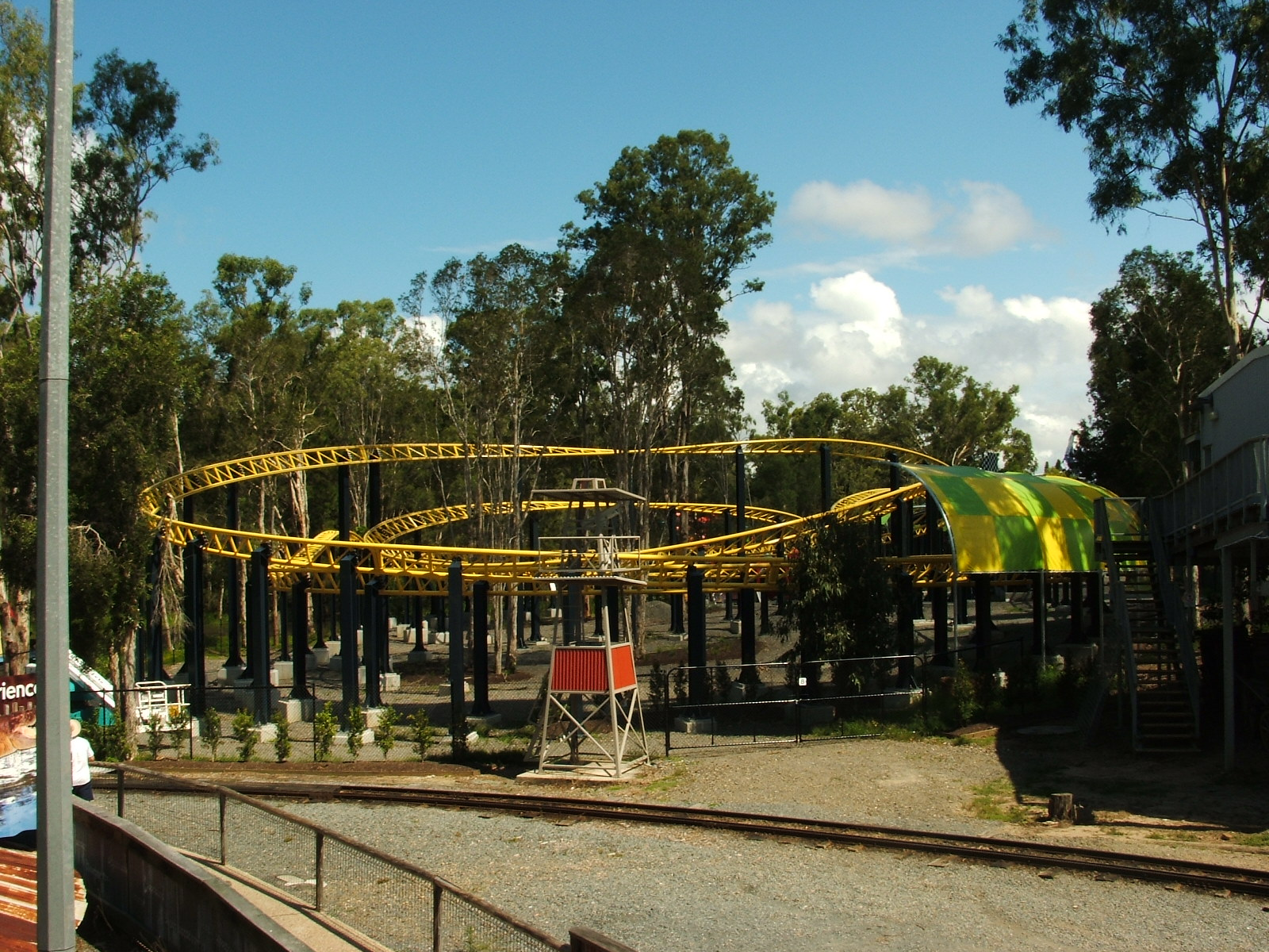 Track of the Mick Doohan Motocoaster at Dreamworld, Australia